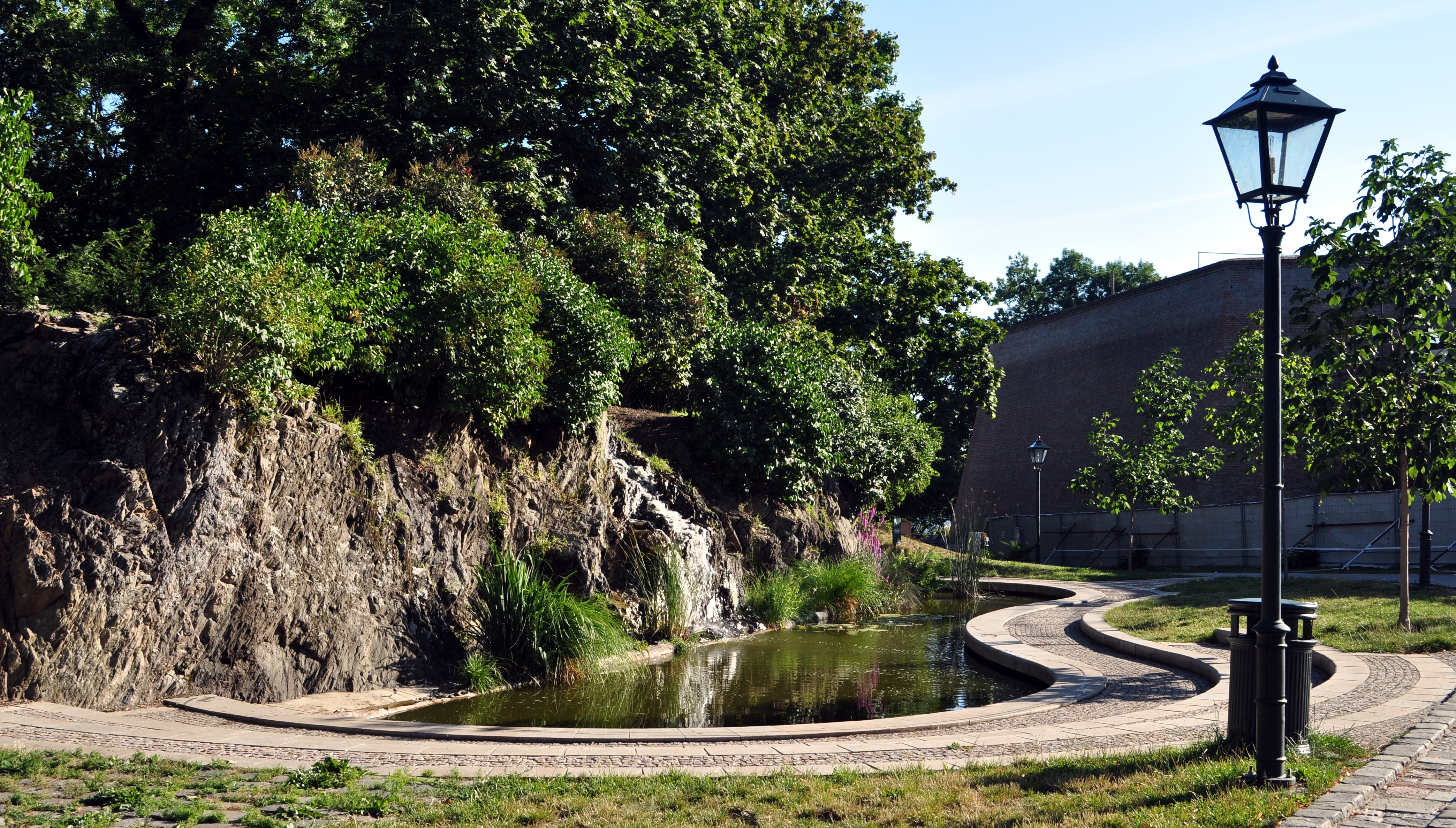 Špilberk park in Brno, Moravia, European Union